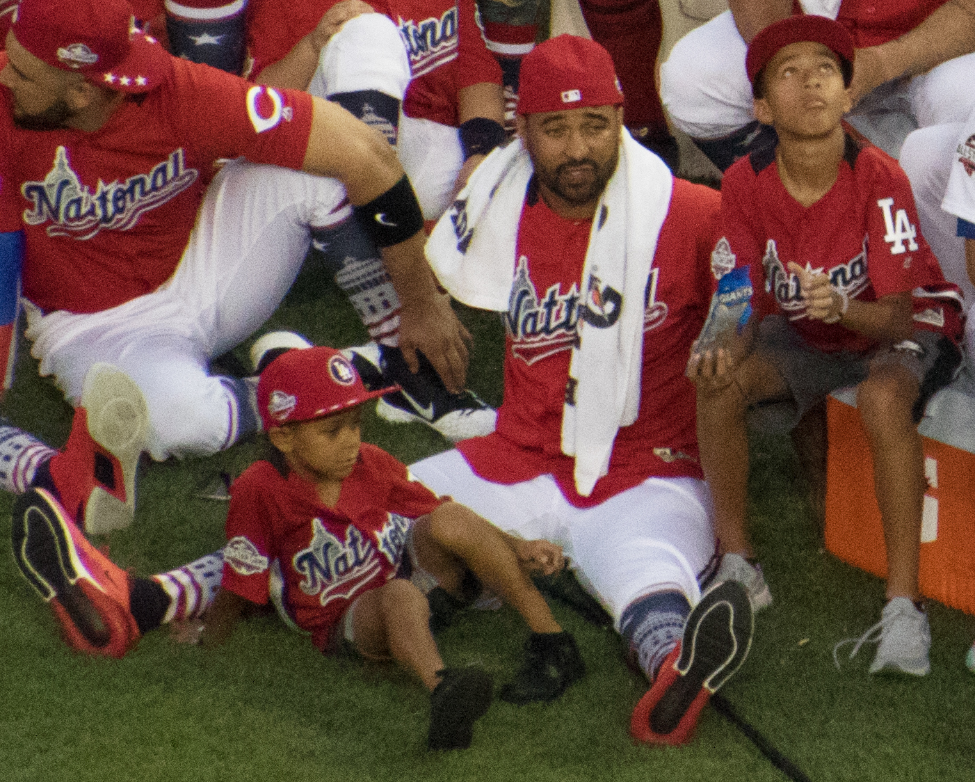 Members of the 2018 National League All-Star Team during the 2018 Major League Baseball Home Run Derby at Nationals Park.